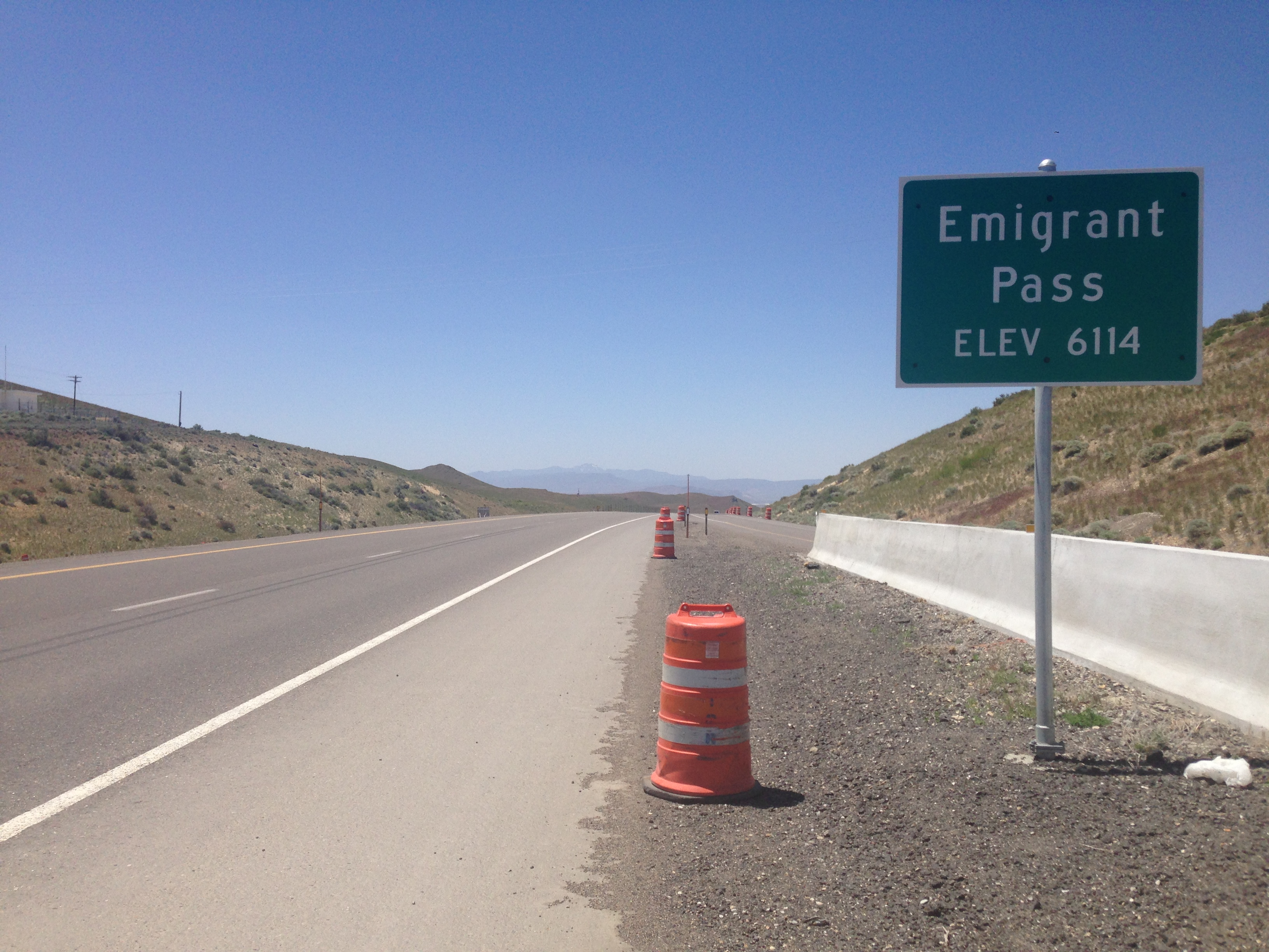 Sign for Emigrant Pass, Nevada on westbound Interstate 80